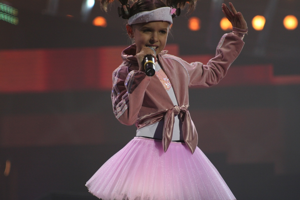 Kseniya Sitnik at the Junior Eurovision Song Contest 2005